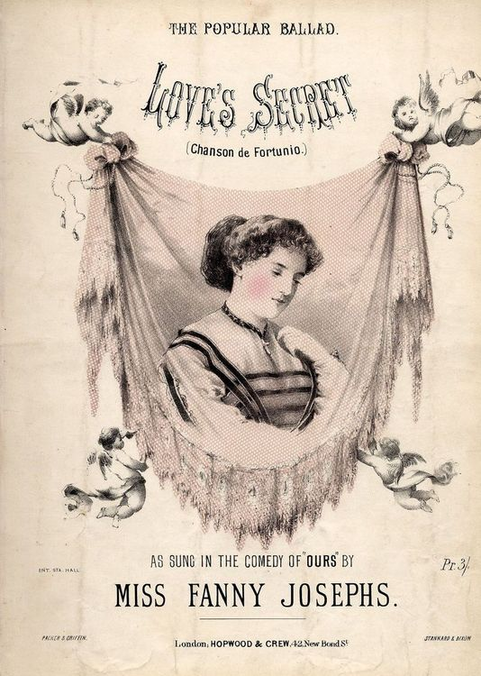 Title page of sheet music 'Love's Secret', an adaptation of Chanson de Fortunio by Jacques Offenbach, with engraving